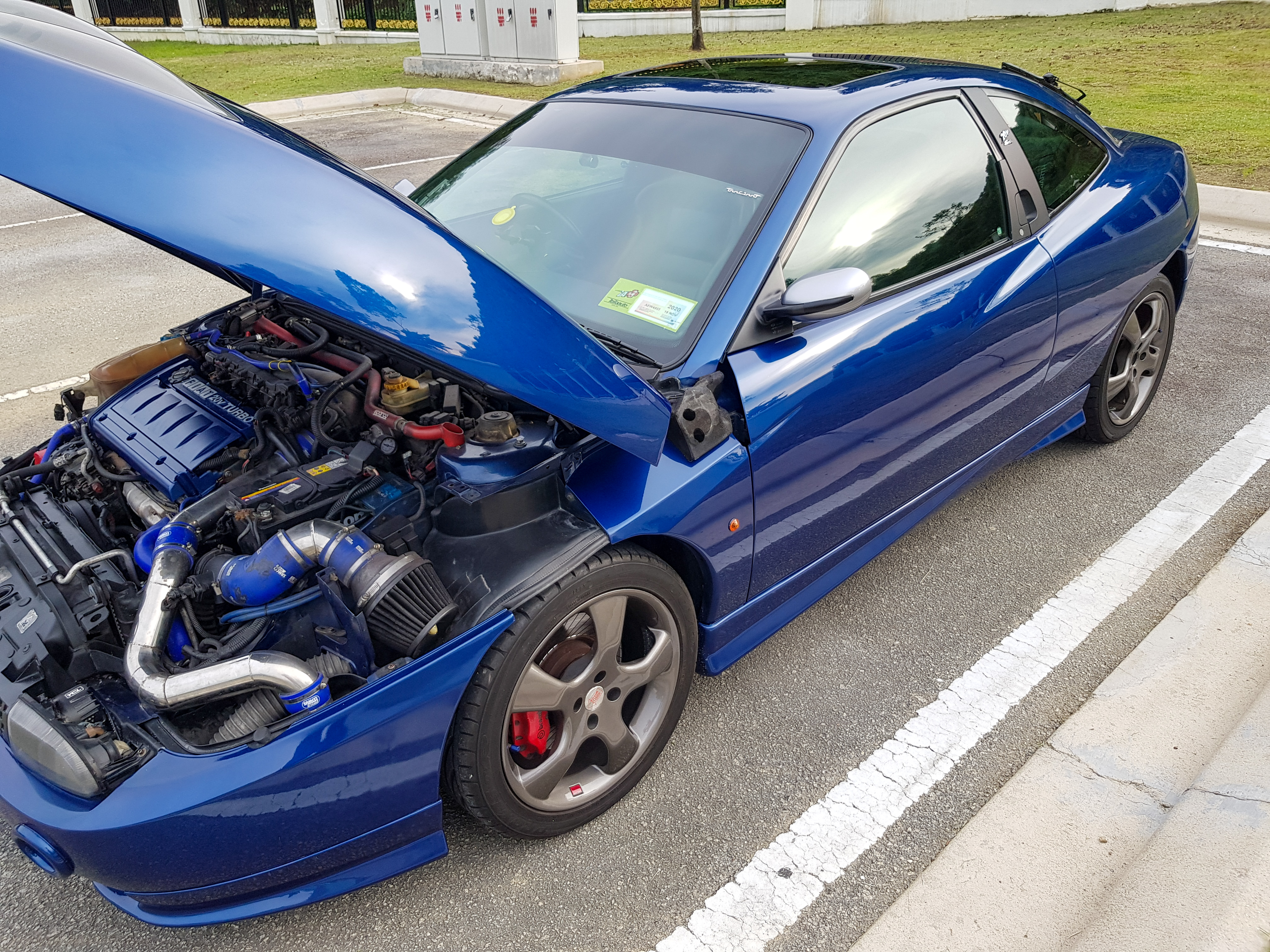 Robust engine makes it the tuners' delight.